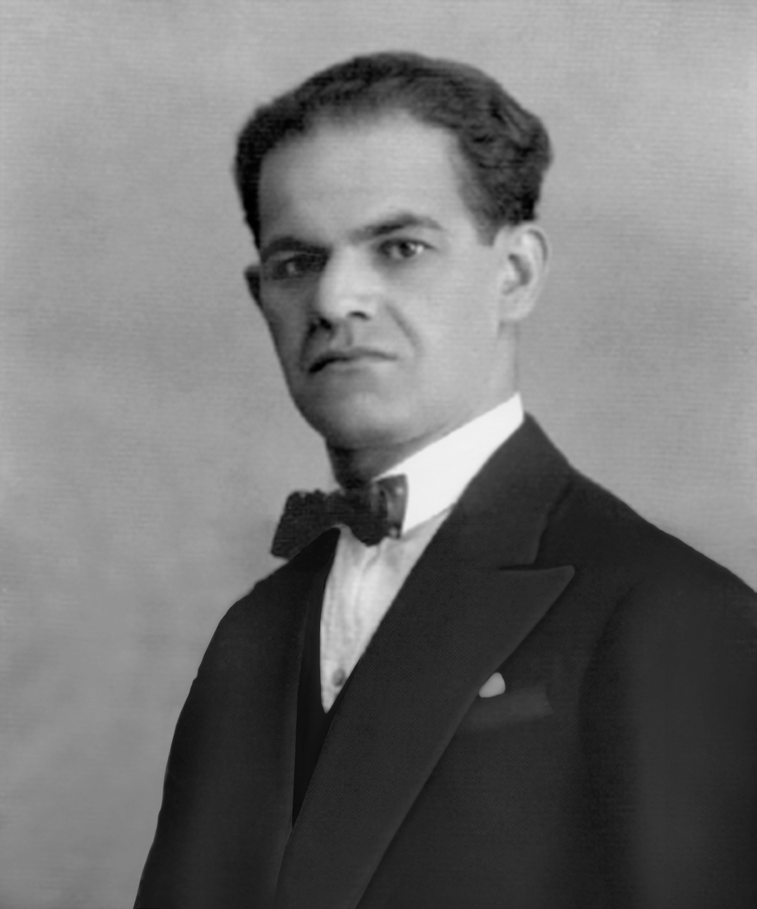 Photography of Kalmi Baruh, Vienna, 1923, (265 × 318 пиксела, величина фајла: 57 KB, МИМЕ тип: image/png)